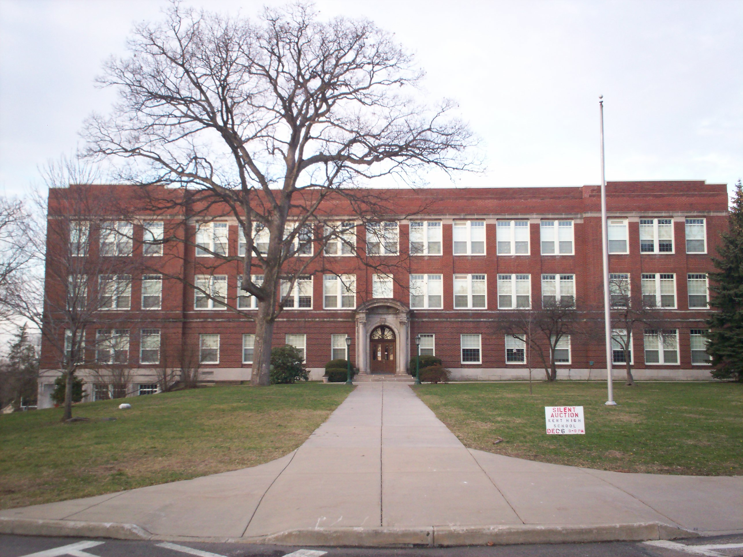 View of Davey Elementary School in Kent, Ohio. The building opened in 1922 and was first home to Theodore Roosevelt High School until 1959 before serving as Davey Junior High/Middle School until 1999. It was renovated from 1999-2000 and reopened in 2000 as Davey Elementary School. Originally uploaded 3 February 2007 to English Wikipedia.